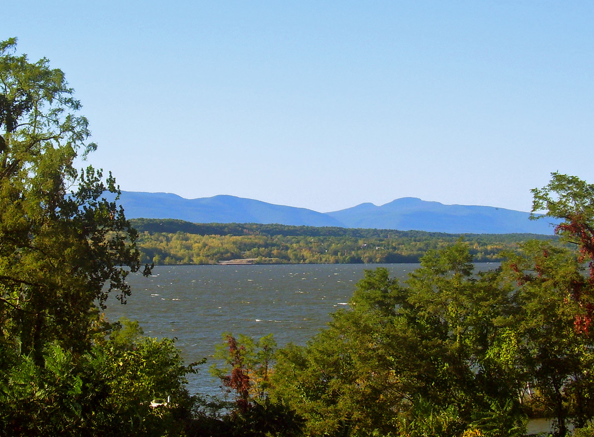 View of Catskills looking over Hudson River from near Rhinecliff, NY, USA, in the Hudson River Historic District, a National Historic Landmark